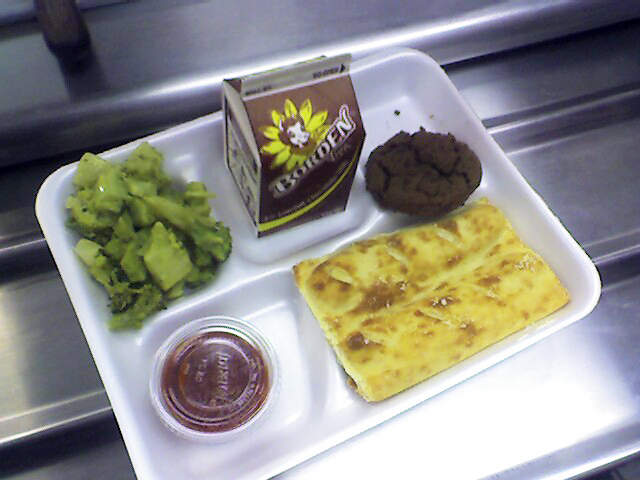 yea.... It hasn't changed much